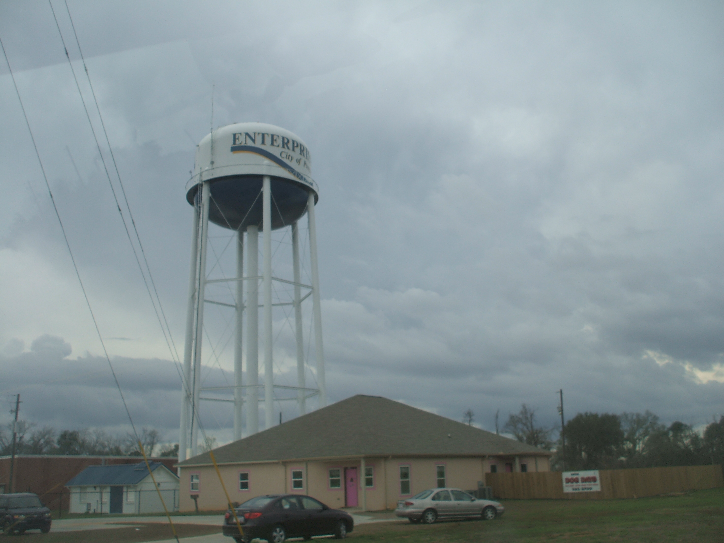 Water tower in Enterprise, Alabama.